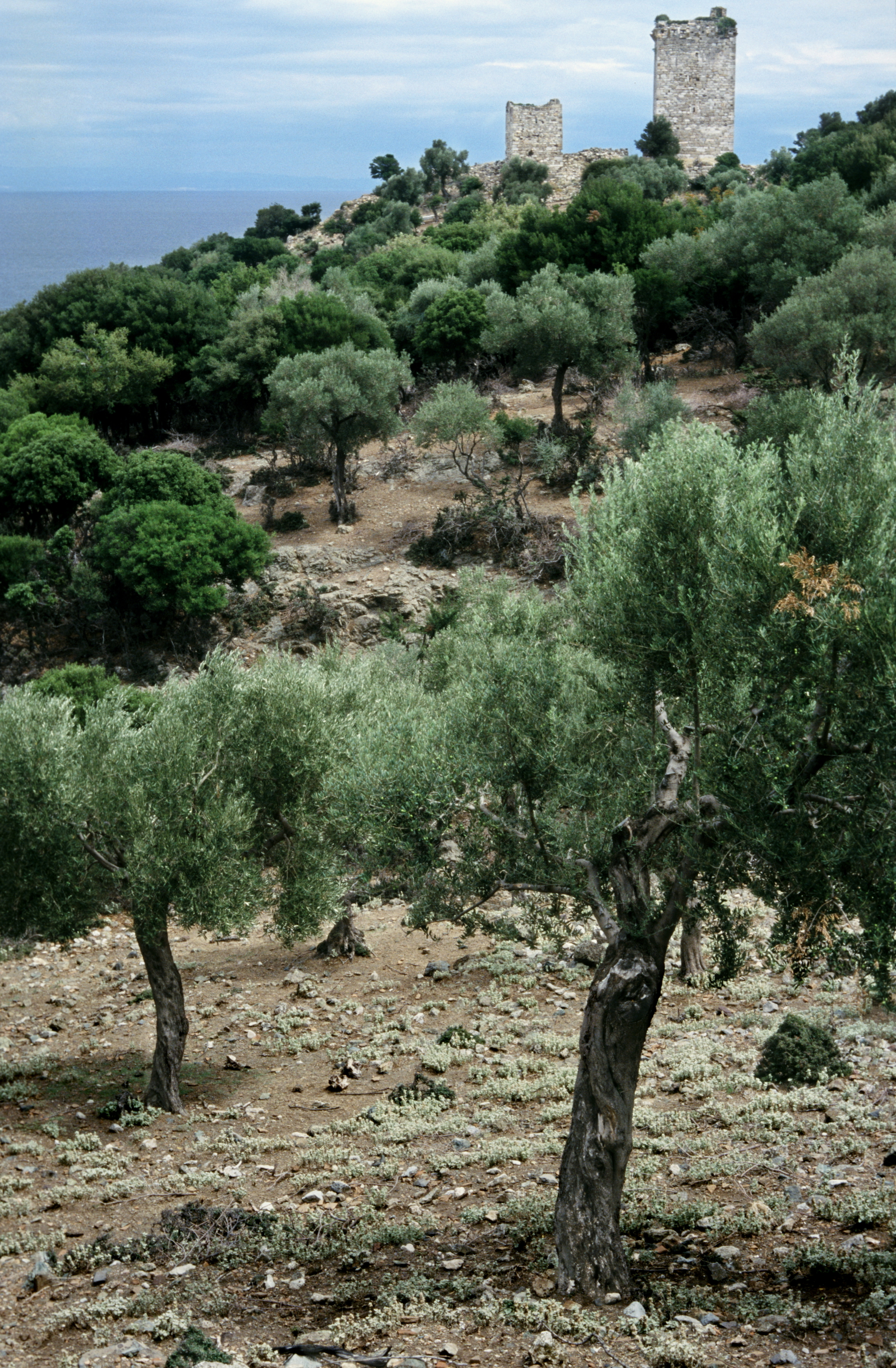 Paleopolis towers, Samothrace island, Thrace, Greece.